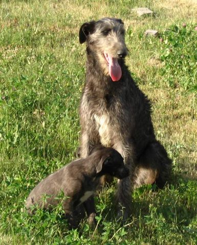 Deerhounds - female and puppy from kennel "Festina", Poland. The owner - Hanna Woźna - Gil